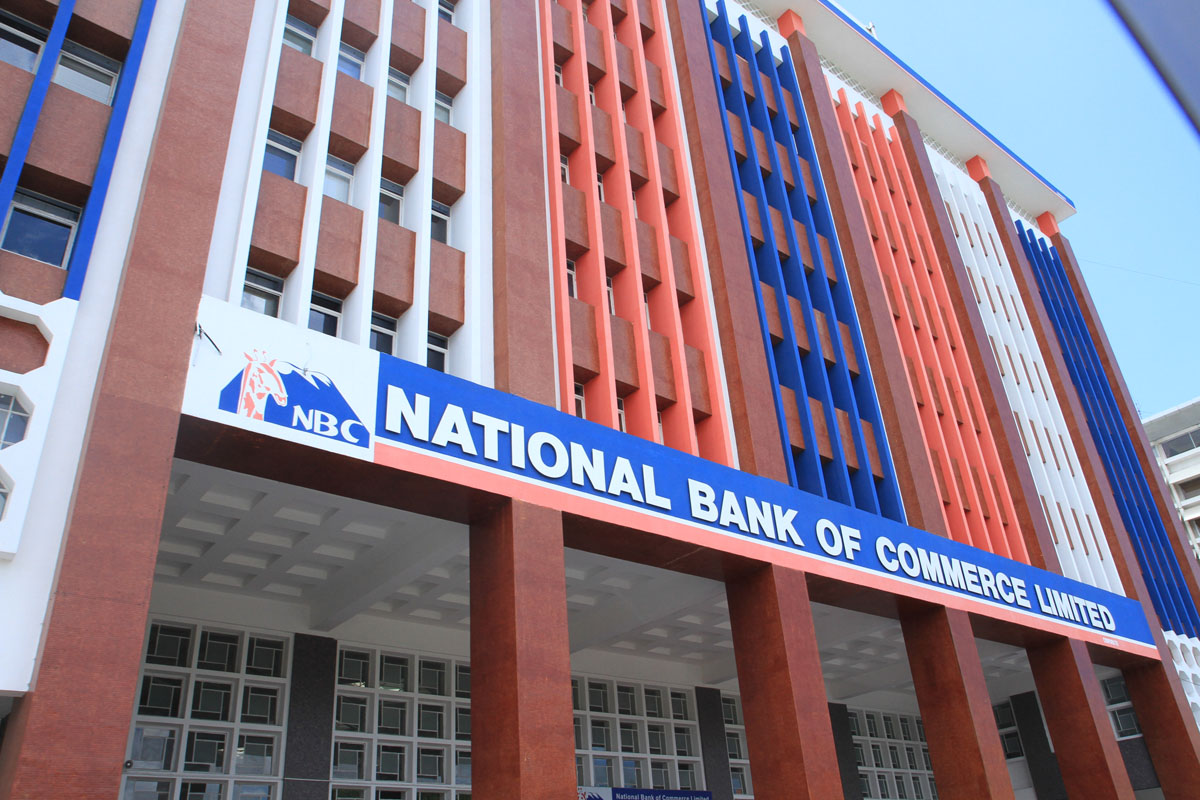 NBC Building